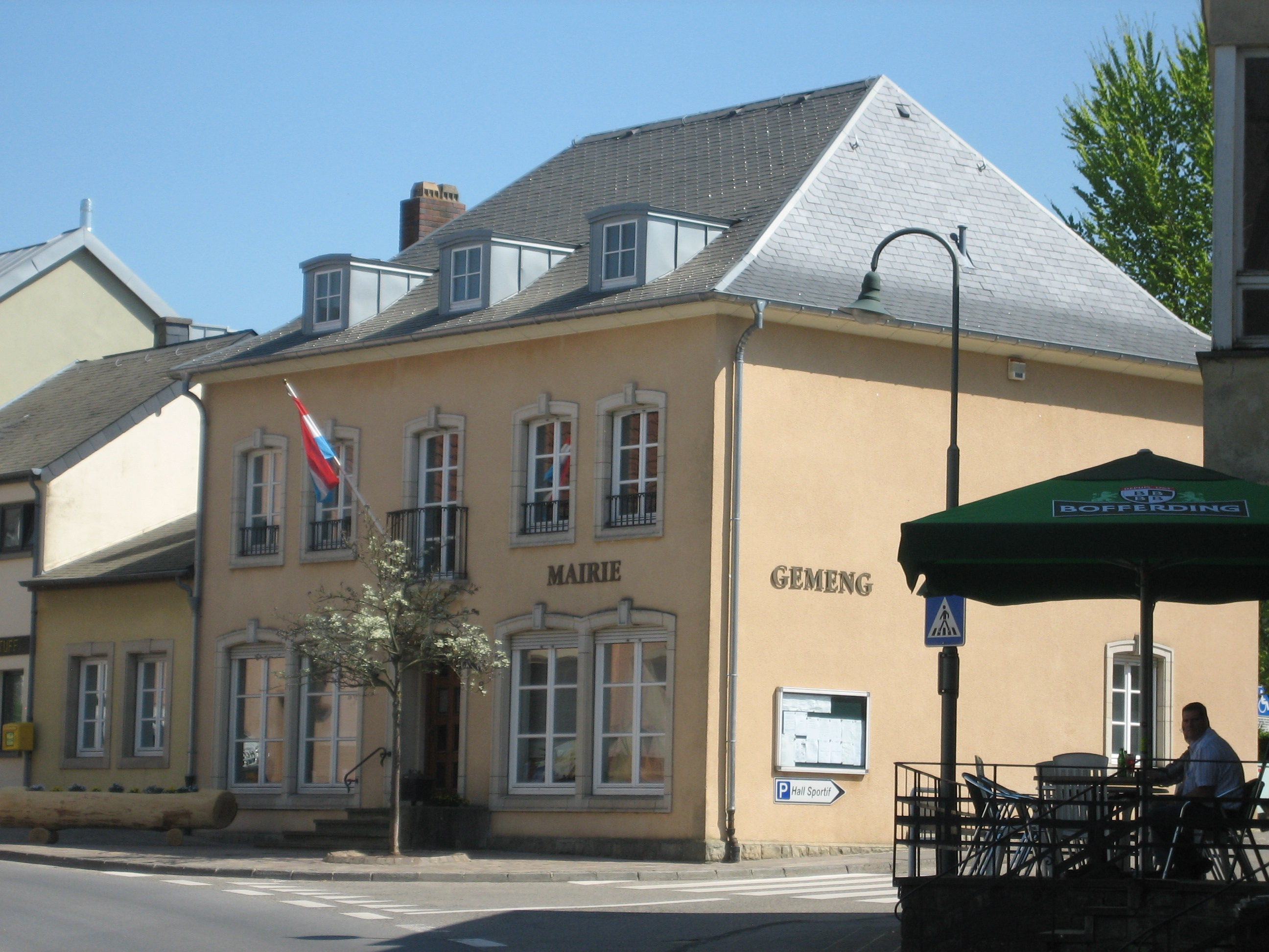 Townhall of the municipality of Consdorf (Konsdref), Luxembourg